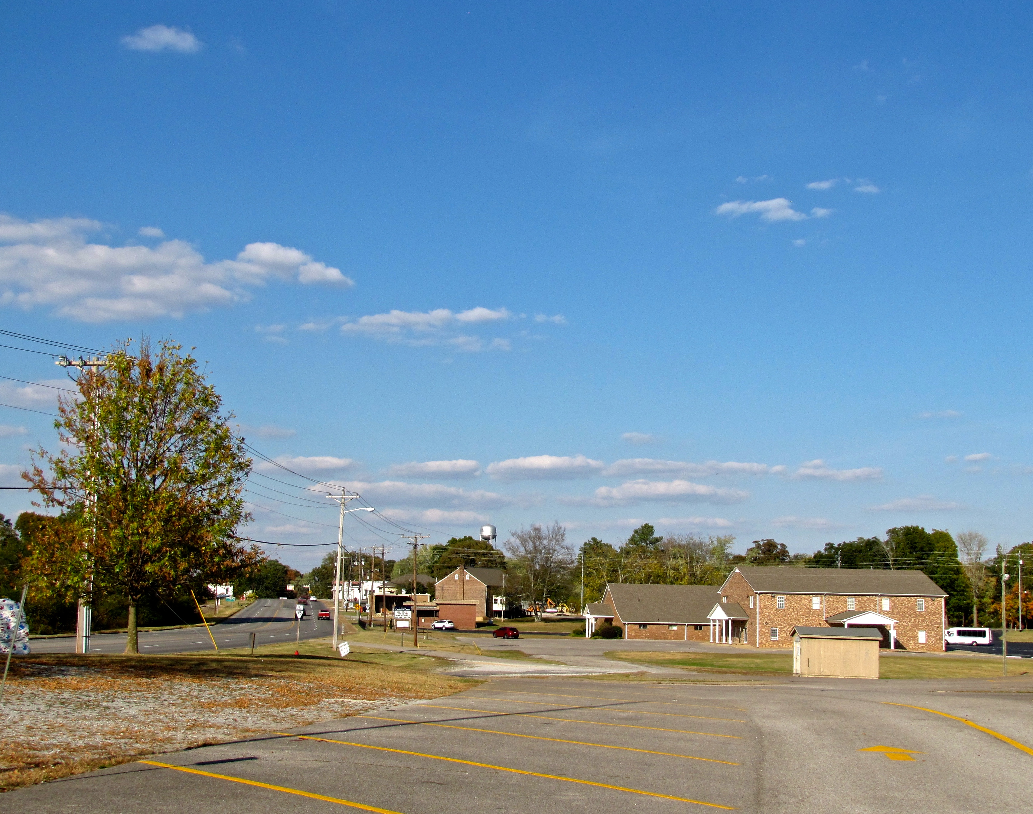 Buildings in Leoma, Tennessee, United States.